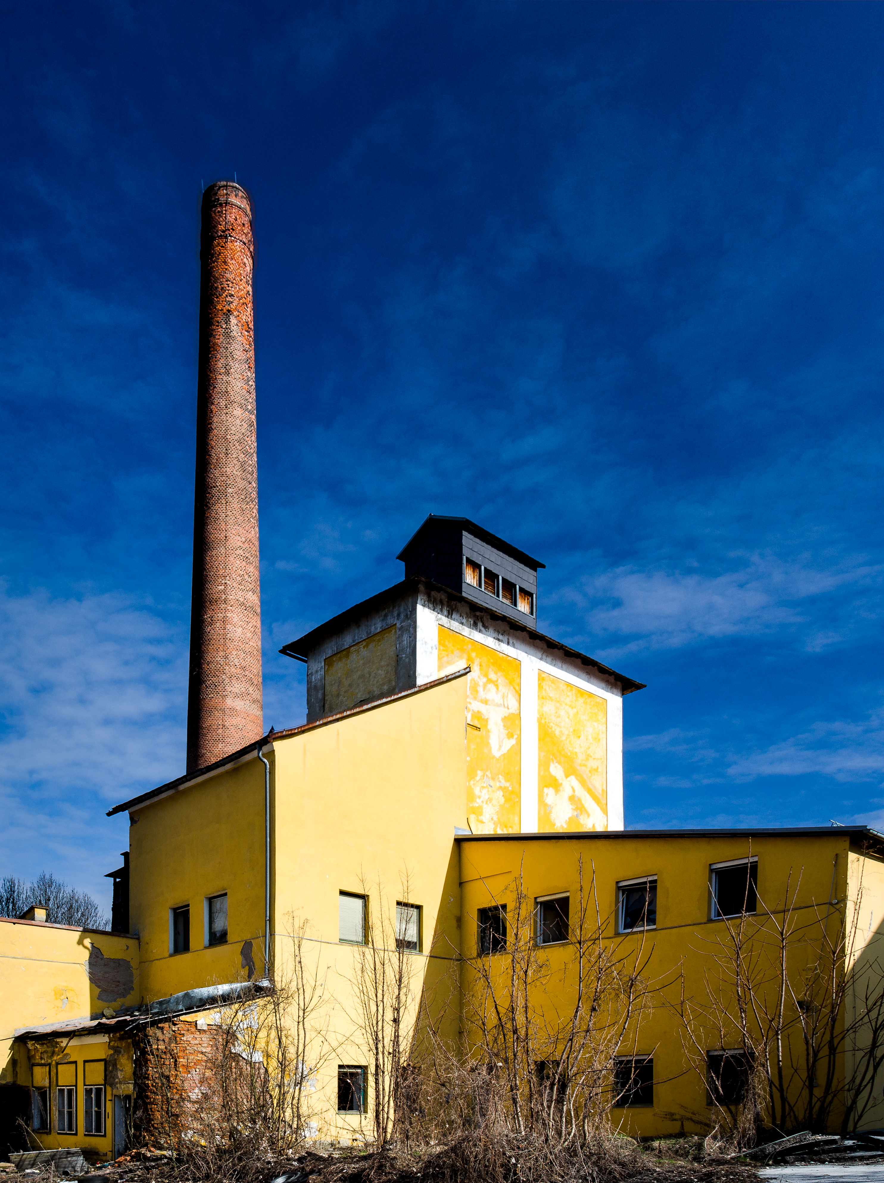 former Mautner Markhof factory in Klagenfurt with tower